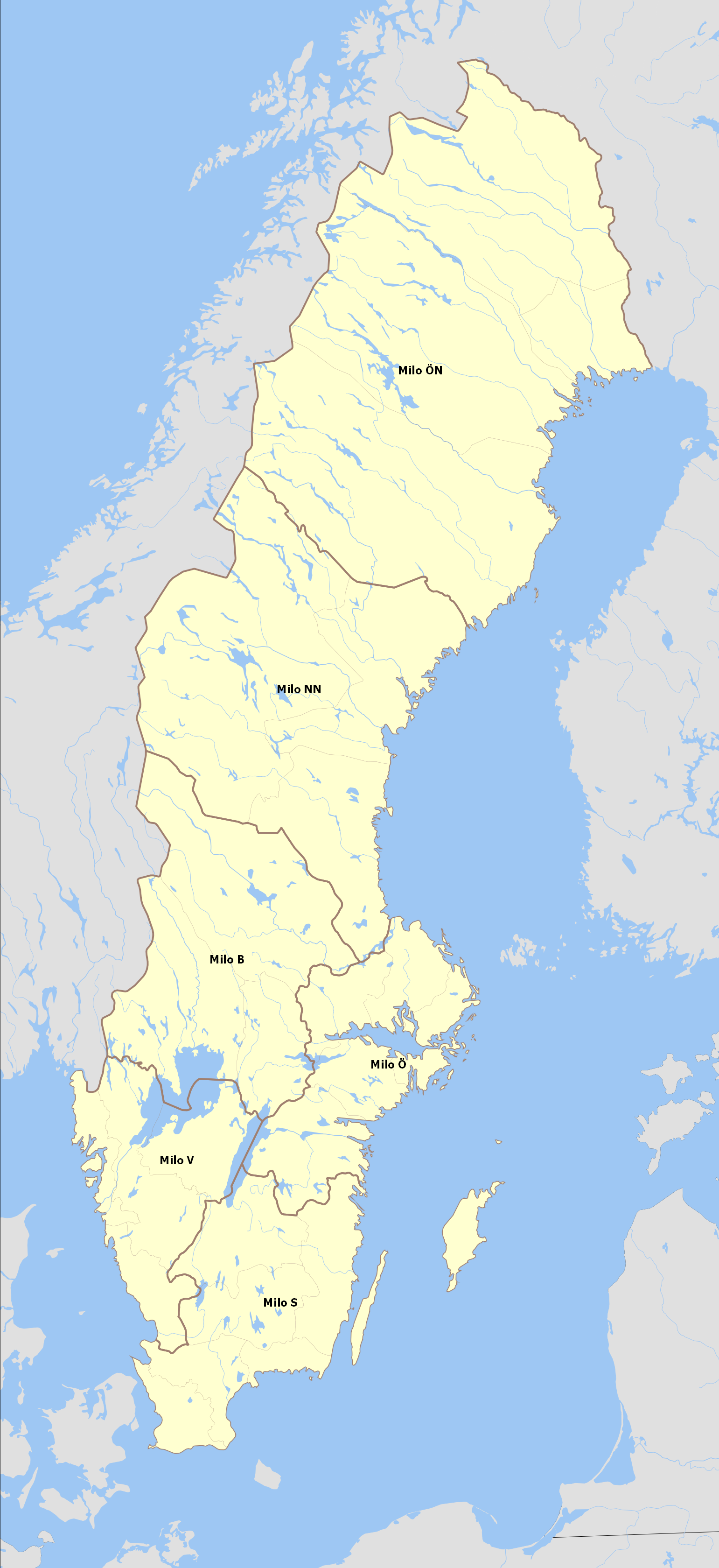 Swedish military areas (Milo) 1988. After map in the collection in the Swedish War-Archives via SVAR. Data from Natural Earth have been used.